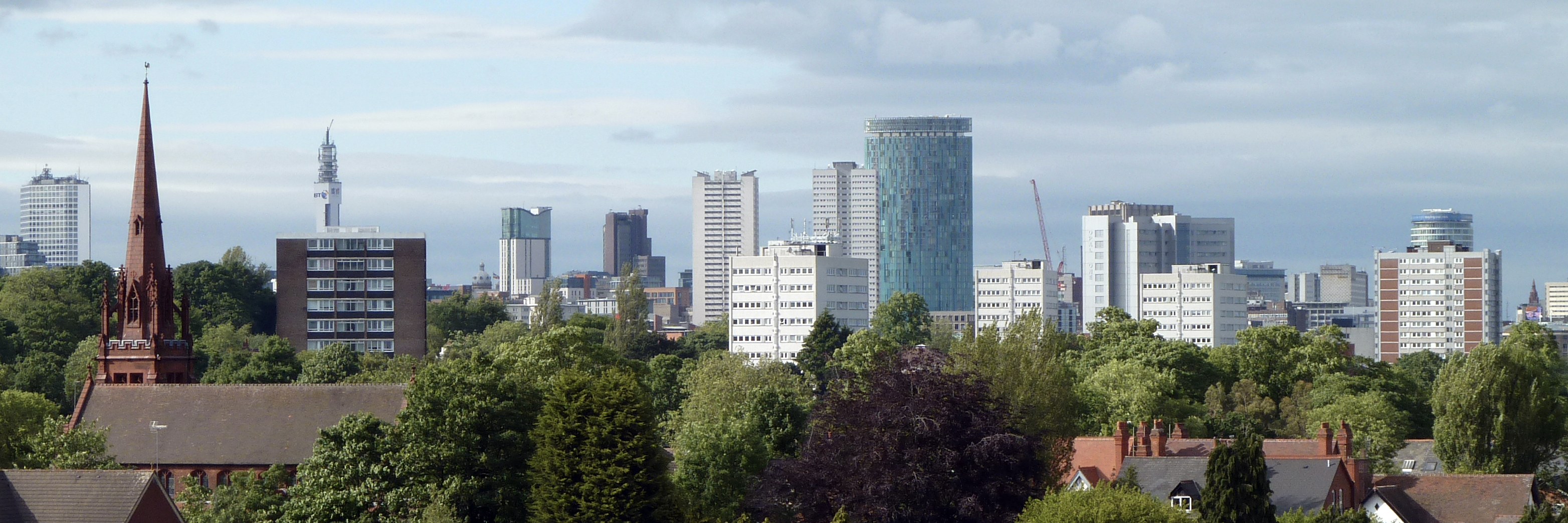 Crop of Birmingham Skyline from Edgbaston Cricket Ground.jpg to fit montage template